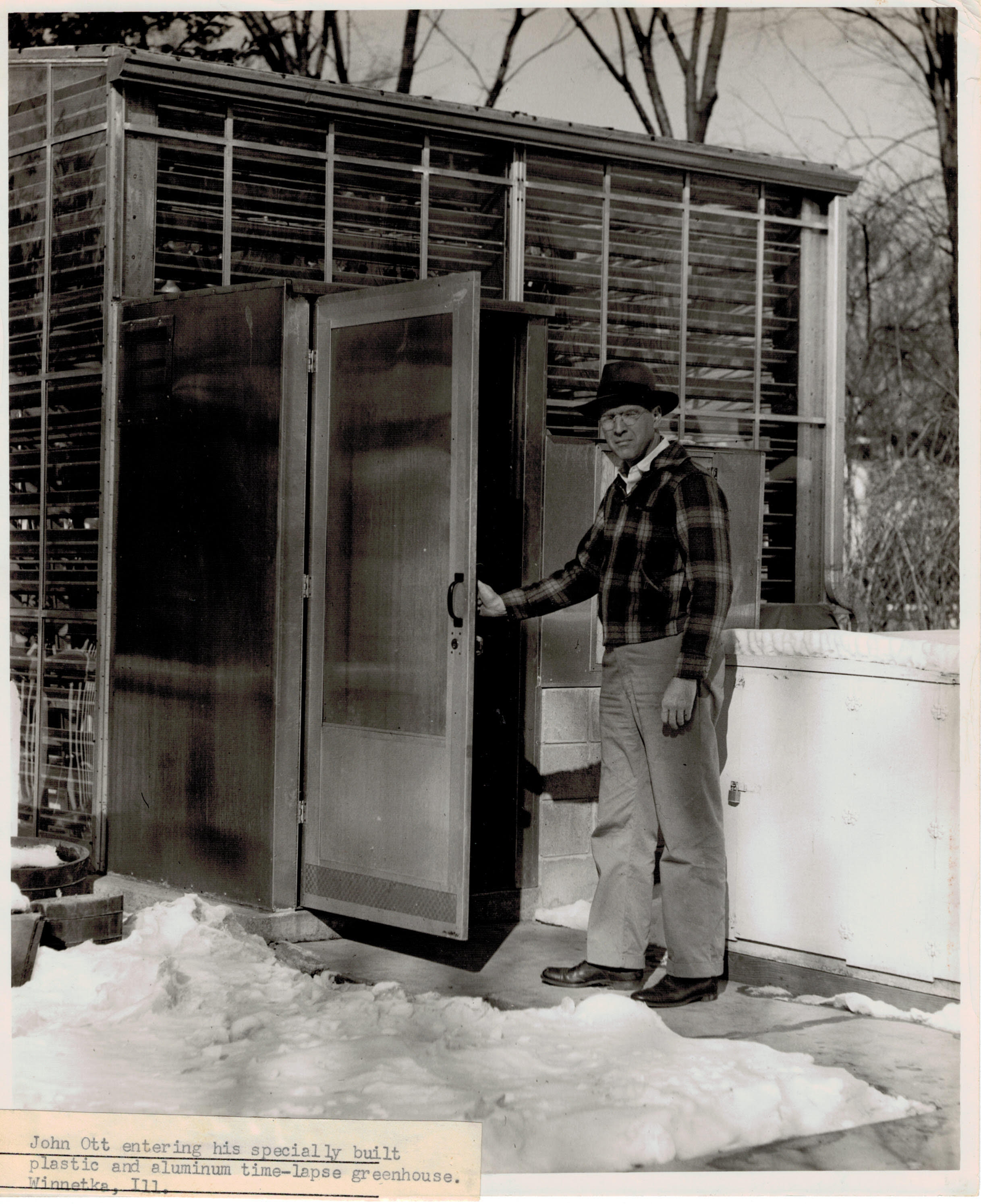 A photo of Ott at work in his garden in Winnetka, Illinois.